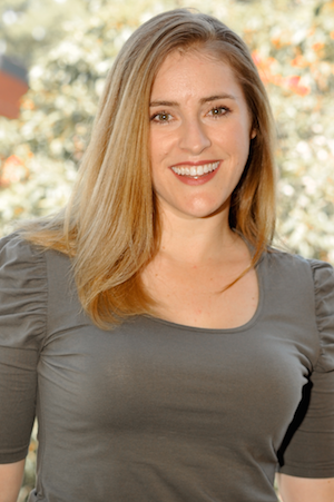 Portrait of Australian author and columnist Kasey Edwards